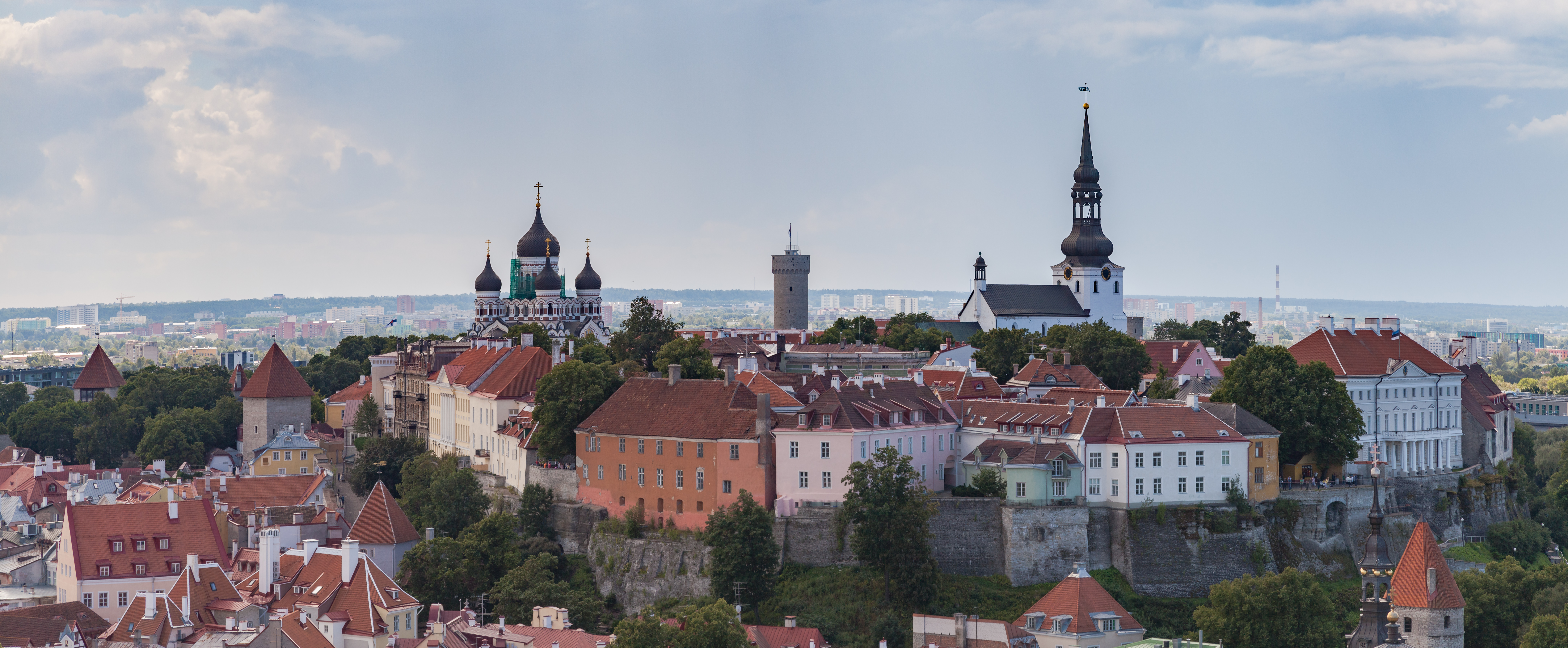 View of Tallinn from St. Olaf's church, Estonia